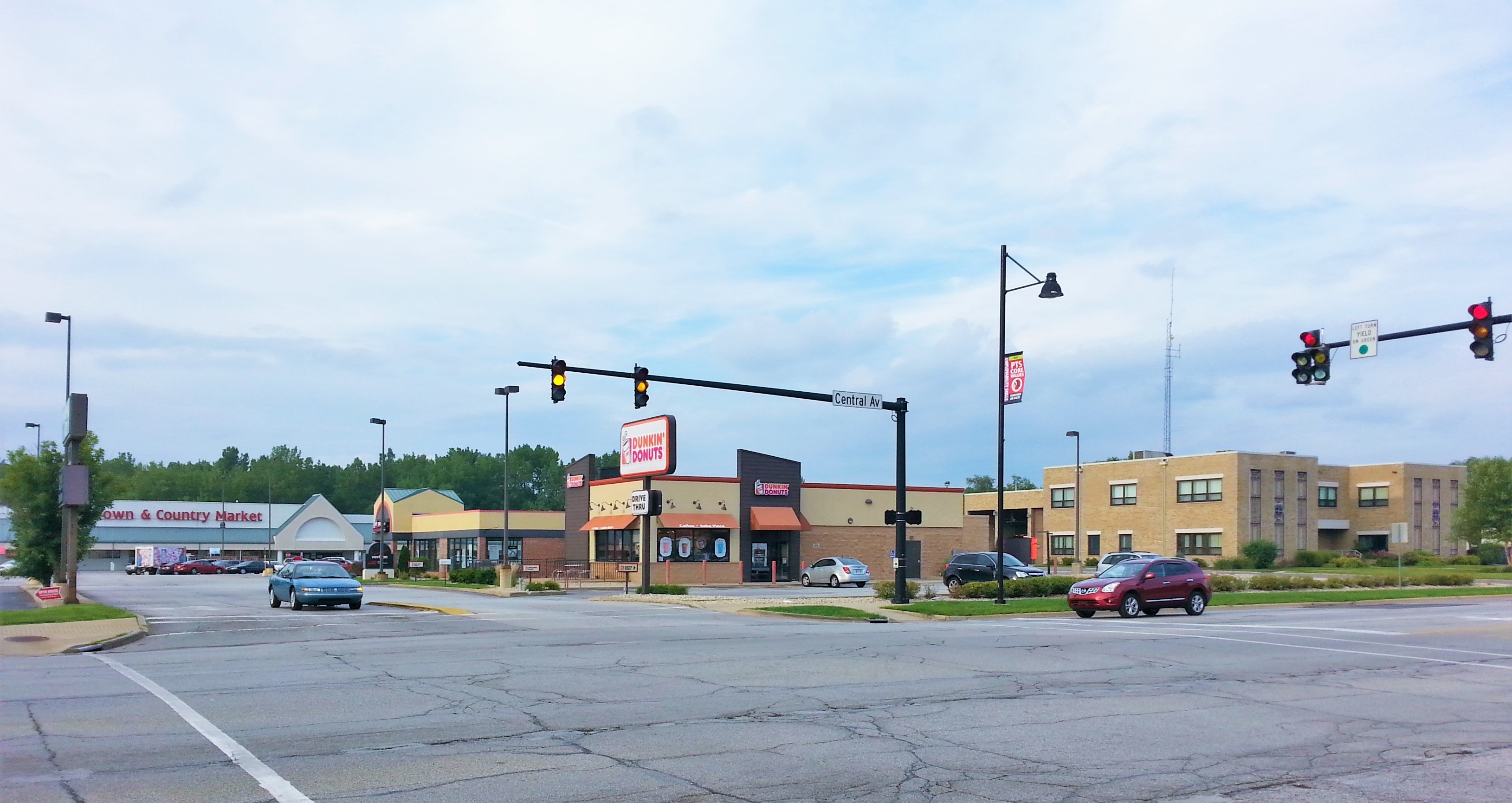 Central Avenue in downtown Portage, Indiana